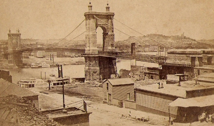 Suspension Bridge over the Ohio River, between Cincinnati, Ohio and Covington, Kentucky. (Backmarked thus: Suspension Bridge Cincinnati.)